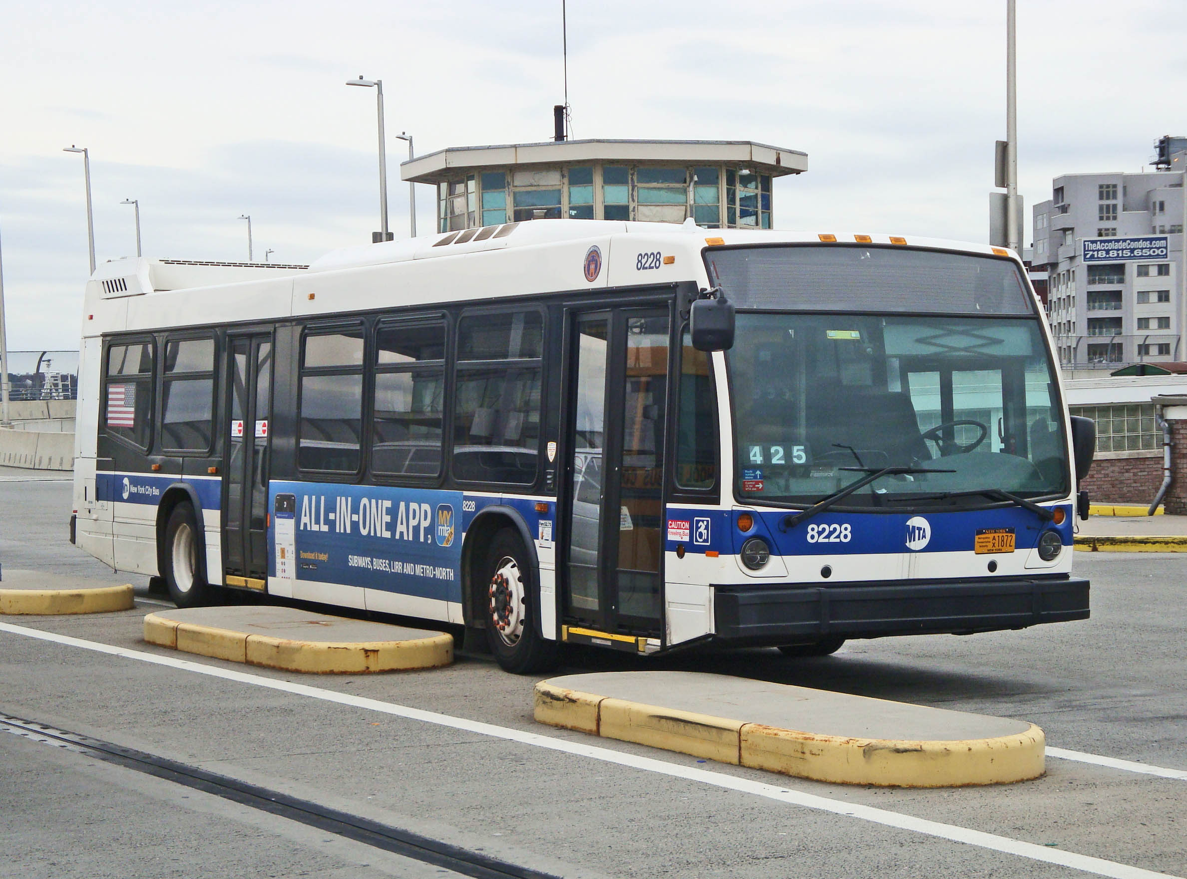 MTA NYCT BUS Lfs Novabus board number 8228 at St George Terminal. Staten Island, New York.